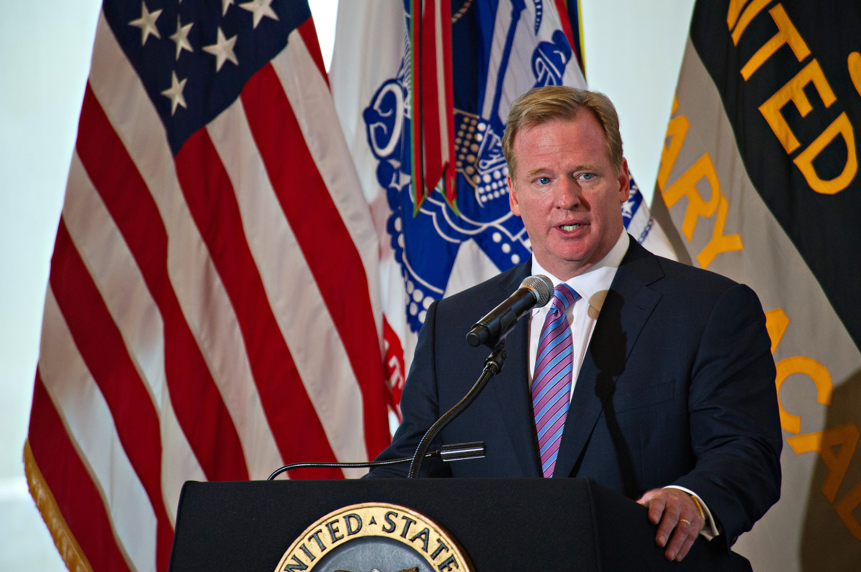 National Football League (NFL) Commissioner Roger Goodell delivers remarks during an event at the U.S. Military Academy at West Point, N.Y., launching an initiative between the Army and the NFL to work to raise awareness about traumatic brain injury Aug. 30, 2012. Goodell and U.S. Army Gen. Raymond T. Odierno, the chief of staff of the Army, jointly signed a letter formalizing the initiative during the event.